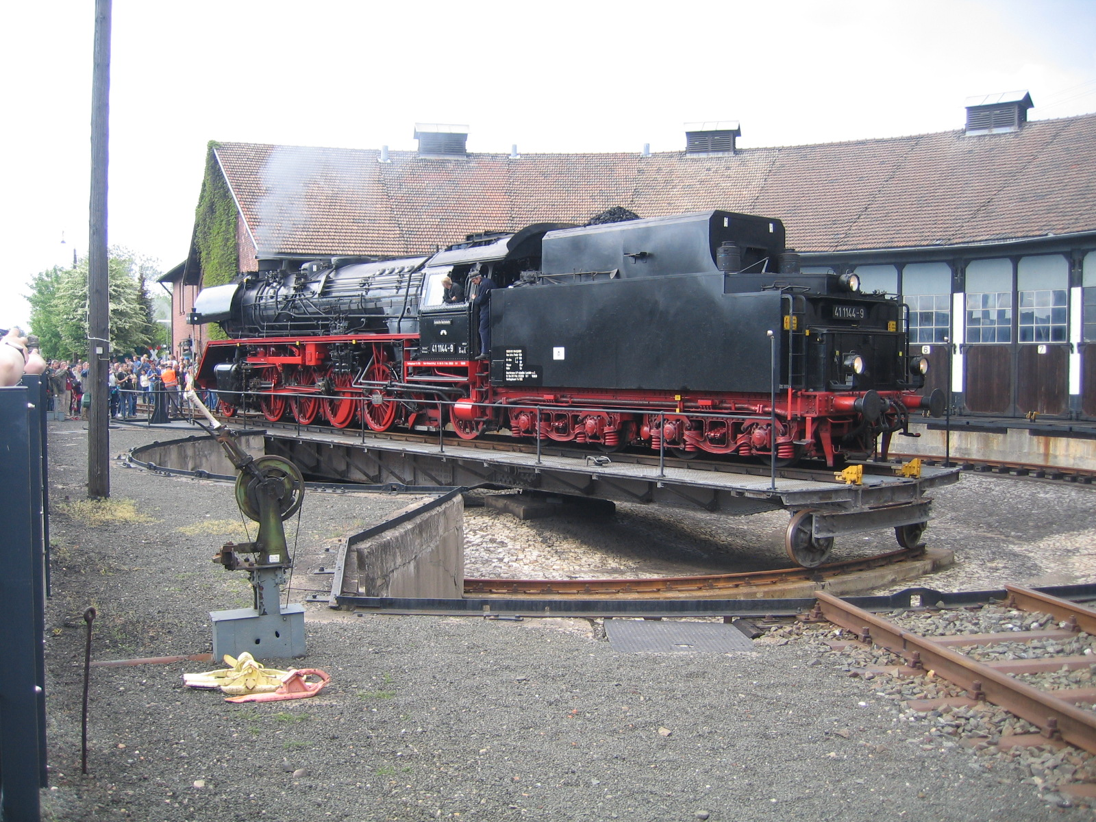 A DRG Class 41 on the turntable at Neuenmarkt shed, Bavaria, Germany.